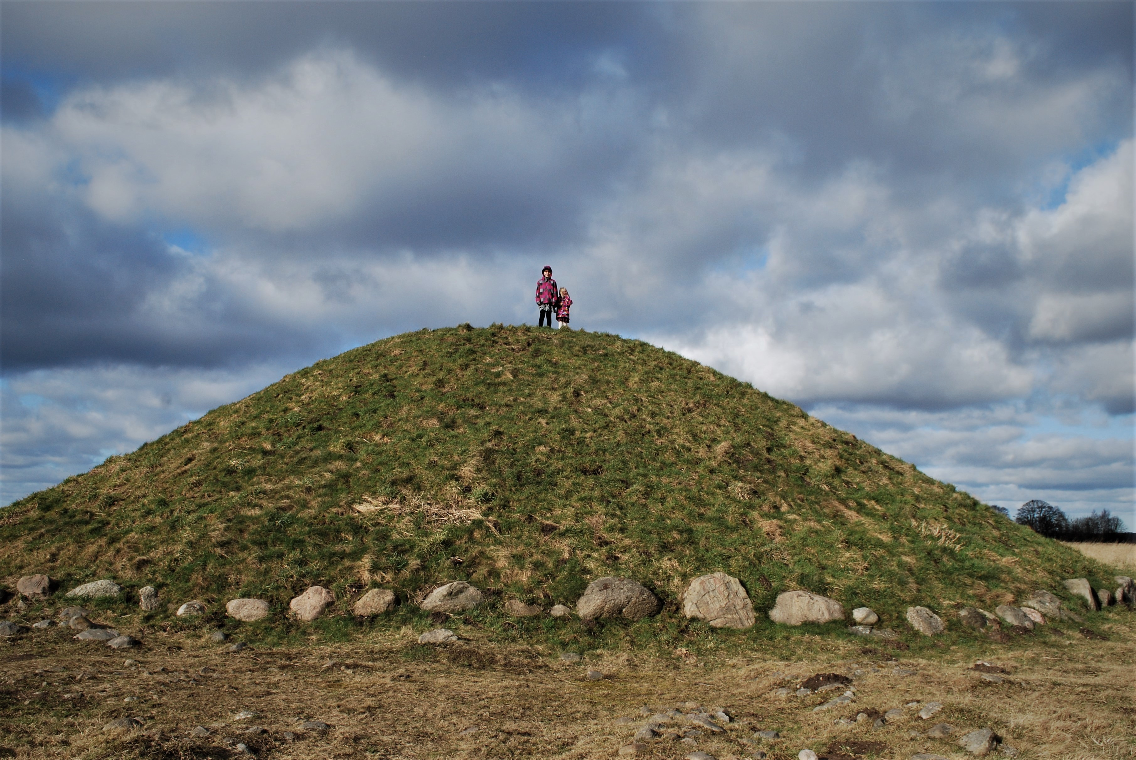 The large barrow Borum Eshøj near Århus lay on a hill with a wide view. In 1871 parts of the mound were being removed and the first grave was found. In it lay the body of an elderly woman. During a more extensive excavation in 1875 two coffins were found containing the remains of two men.